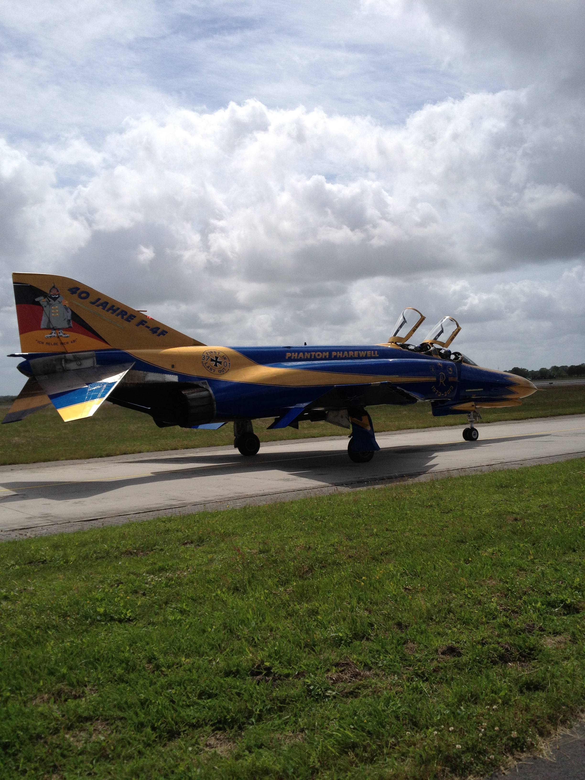 37+01 Phantom Pharewell 2013